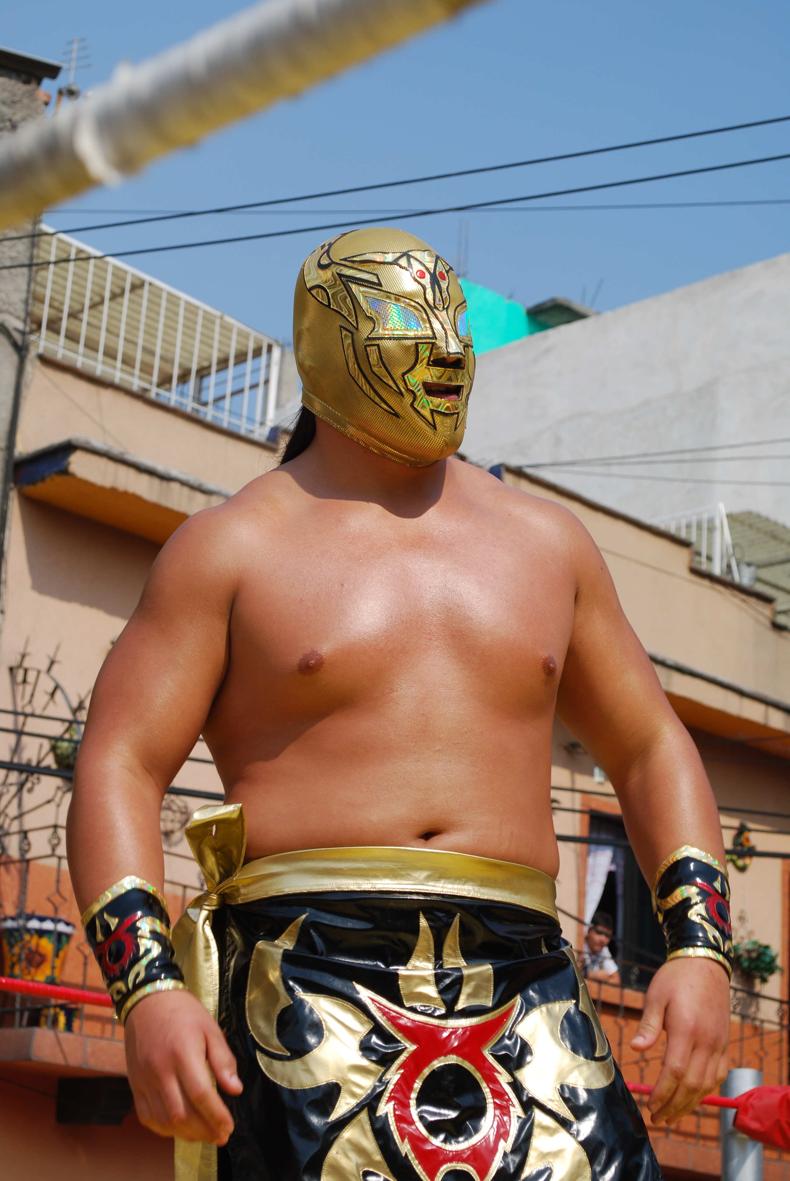 Last match at a CMLL lucha libre event part of Festival Día de Reyes Territorial Obrera Doctores in Mexico City